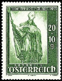 A stamp of Austria depicting a statue of Saint Rupert, "created by Franz Hitzl around 1778 for the high-altar of the church of St. Peter's Abbey in Salzburg"